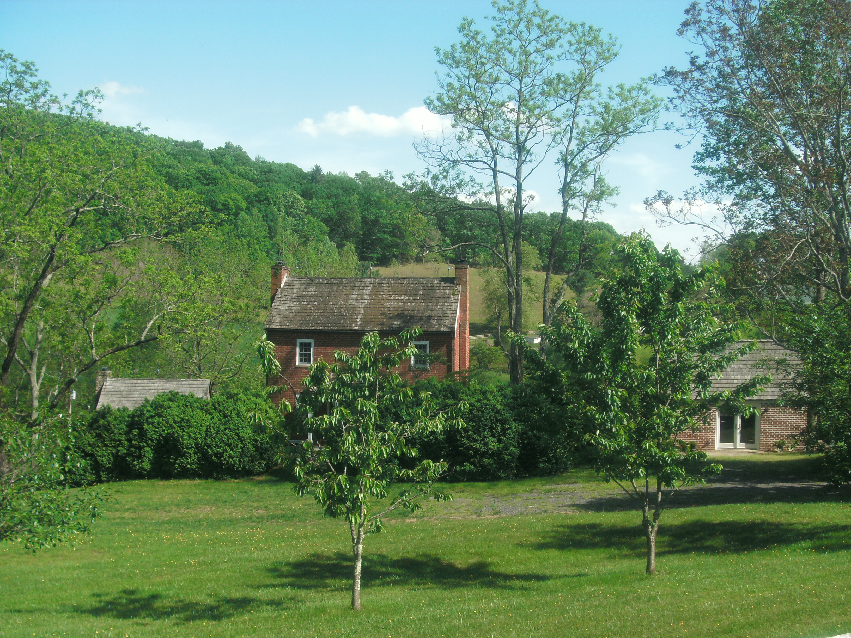 Taken by me in May, 2016 GEDSC DIGITAL CAMERA